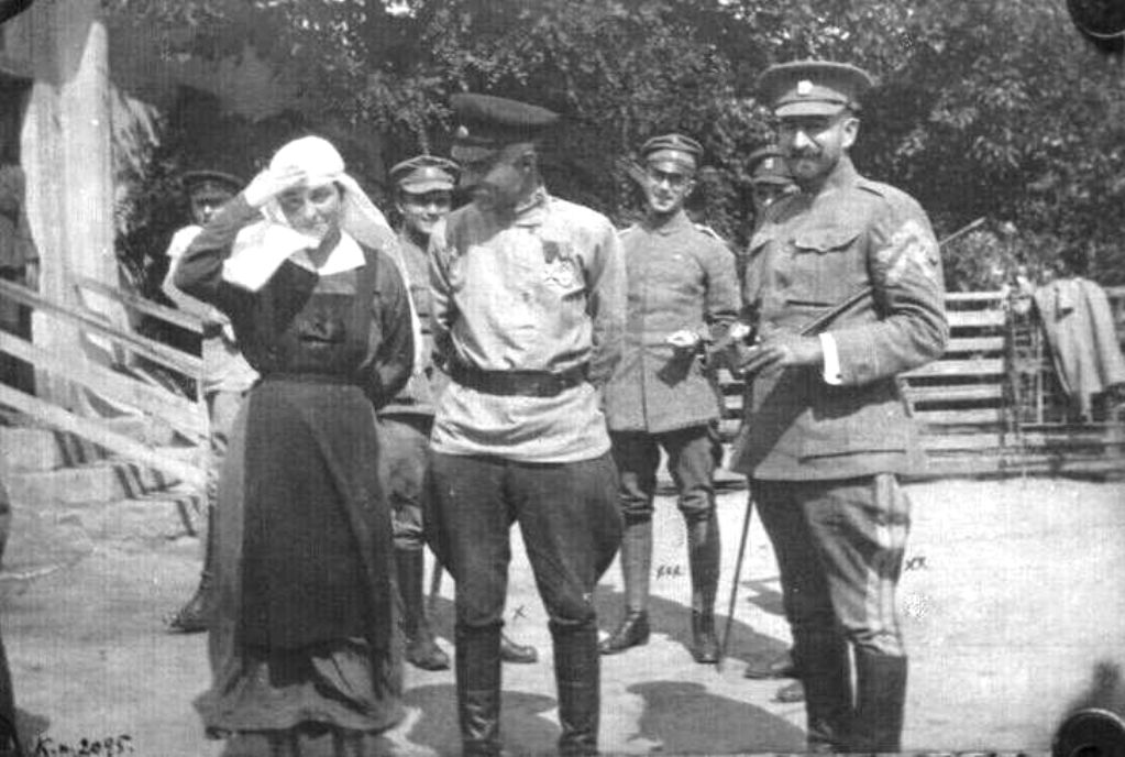 Commanders of Ukrainian People's republic - Oleksandr Natiyev (center) and Petro Bolbochan